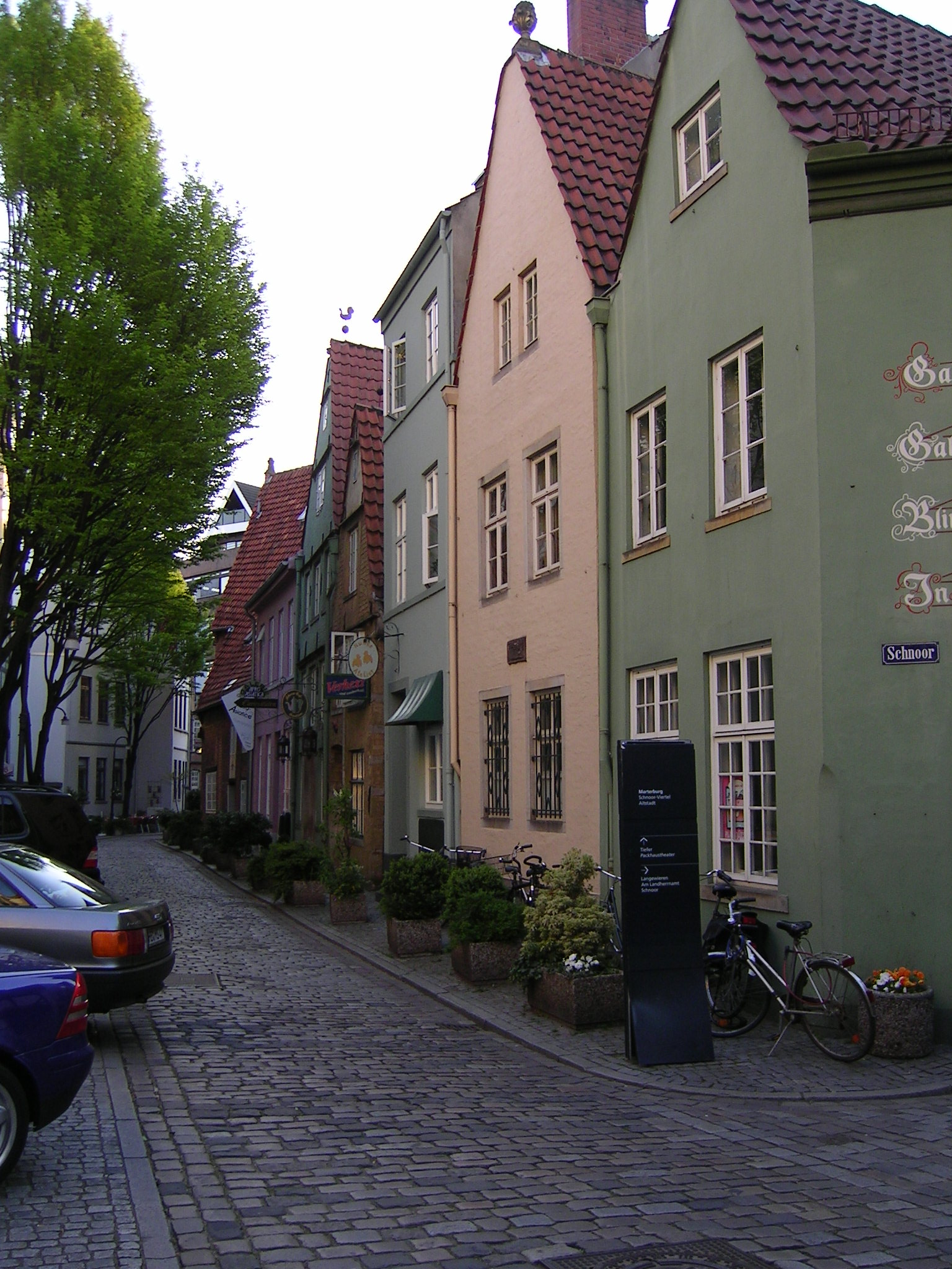 Houses from the 15th and 16th centuries along the narrow alleys in Bremen’s oldest surviving quarter